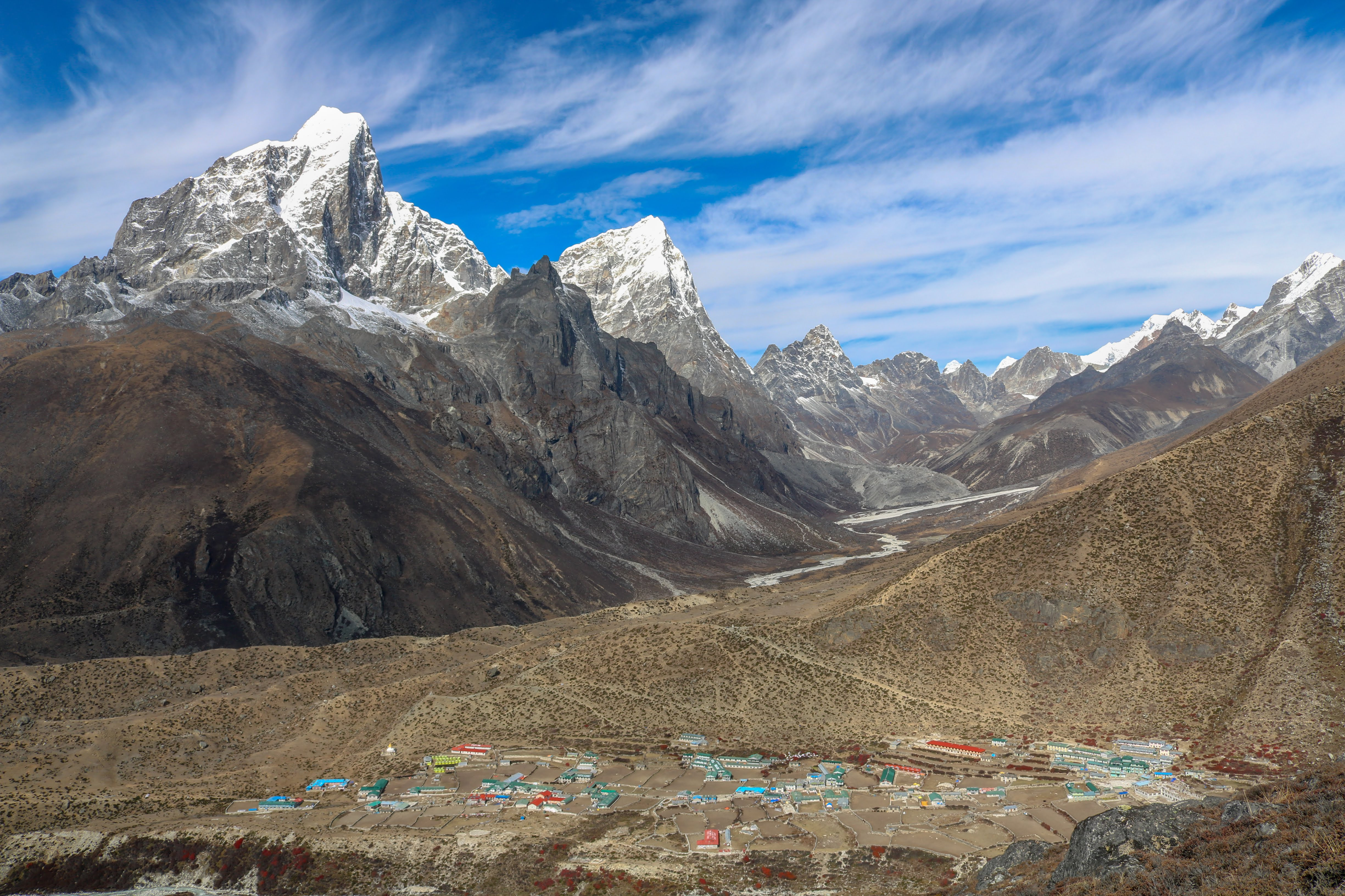 Dingboche village seen during the way towards amadablam base camp